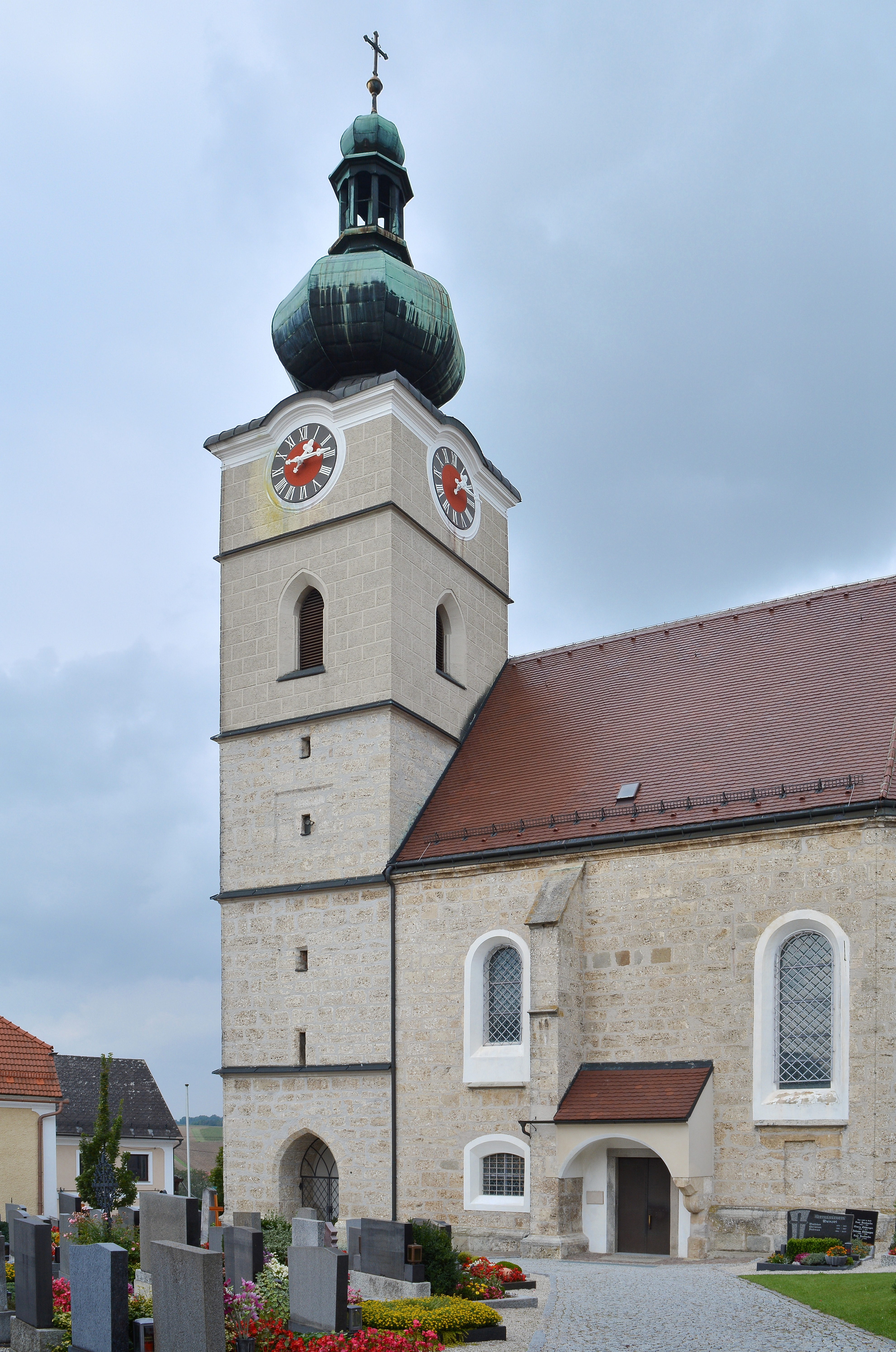 The catholic parish church of Niederneukirchen was built in 1488.